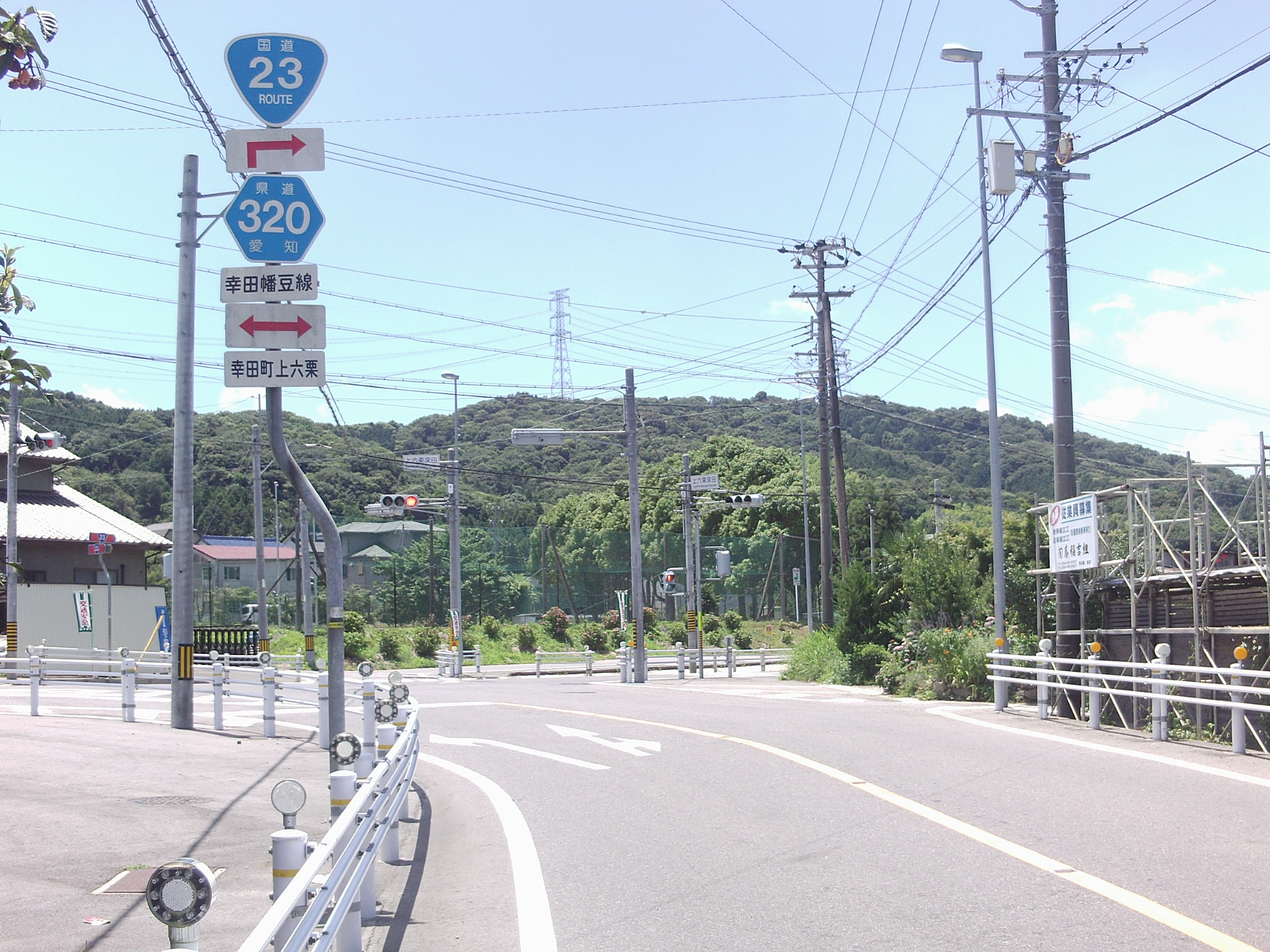 Aichi prefectural road No.320 in Kamimutusguri, Kota-cho, Nukata-gun, Aichi.